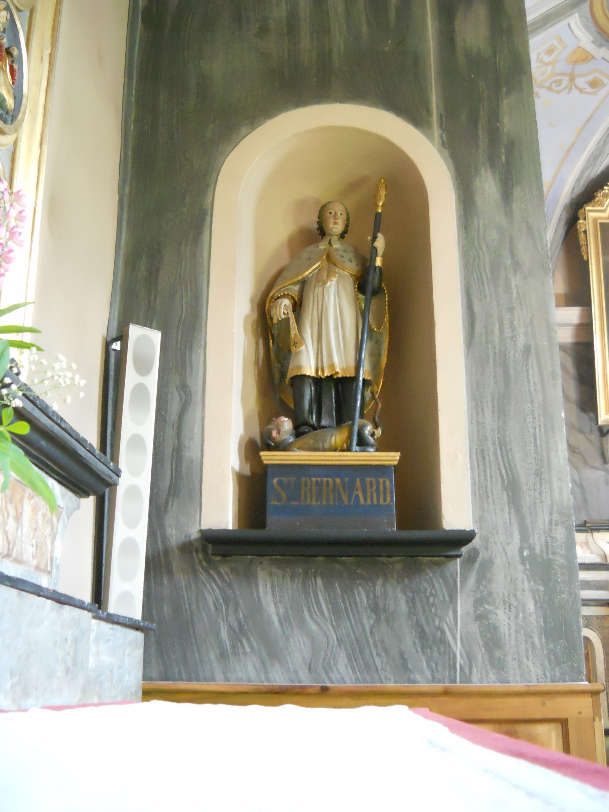 Statue of St. Bernard of Menthon, church of the Visitation of the Virgin Mary, Bruil, Rhêmes-Notre-Dame, Aosta Valley, Italy